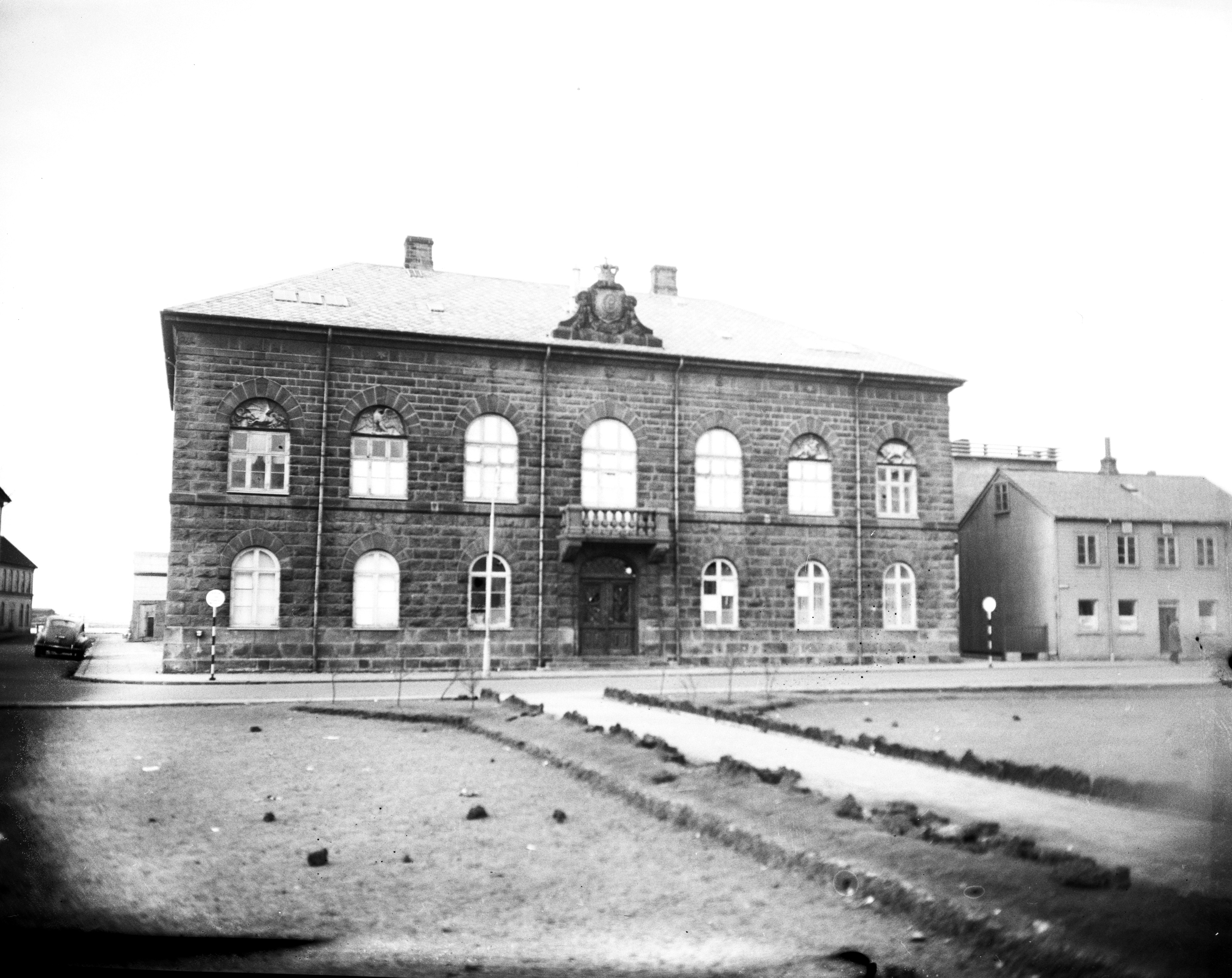 An exterior shot of Althingi, the Icelandic parliament, taken in Austurvöllur on March 31 1949 the day after rioting because a resolution was passed in order for Iceland to be a founding member of NATO.